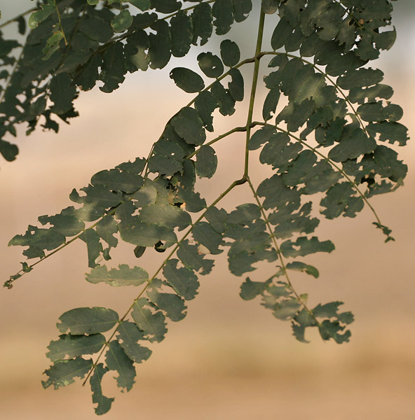 Siris Albizia lebbeck at Hodal in Faridabad District of Haryana, India.